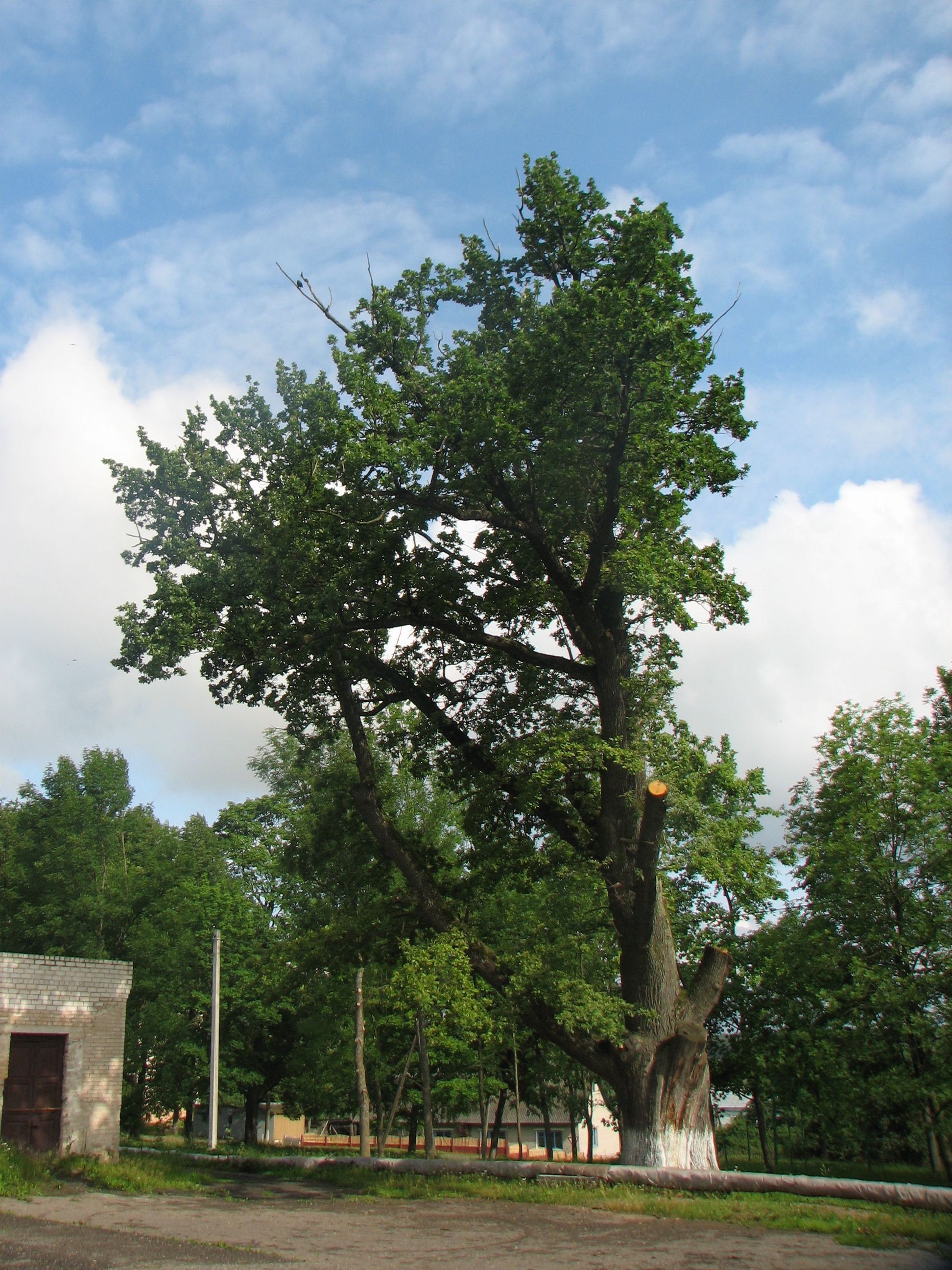 The oak of Napoleon. According to a legend, it is that tree by which french emperor Napoleon I sat to painter Albrecht Adam in 1812. The tree's branches were sawn down in October of 2010.